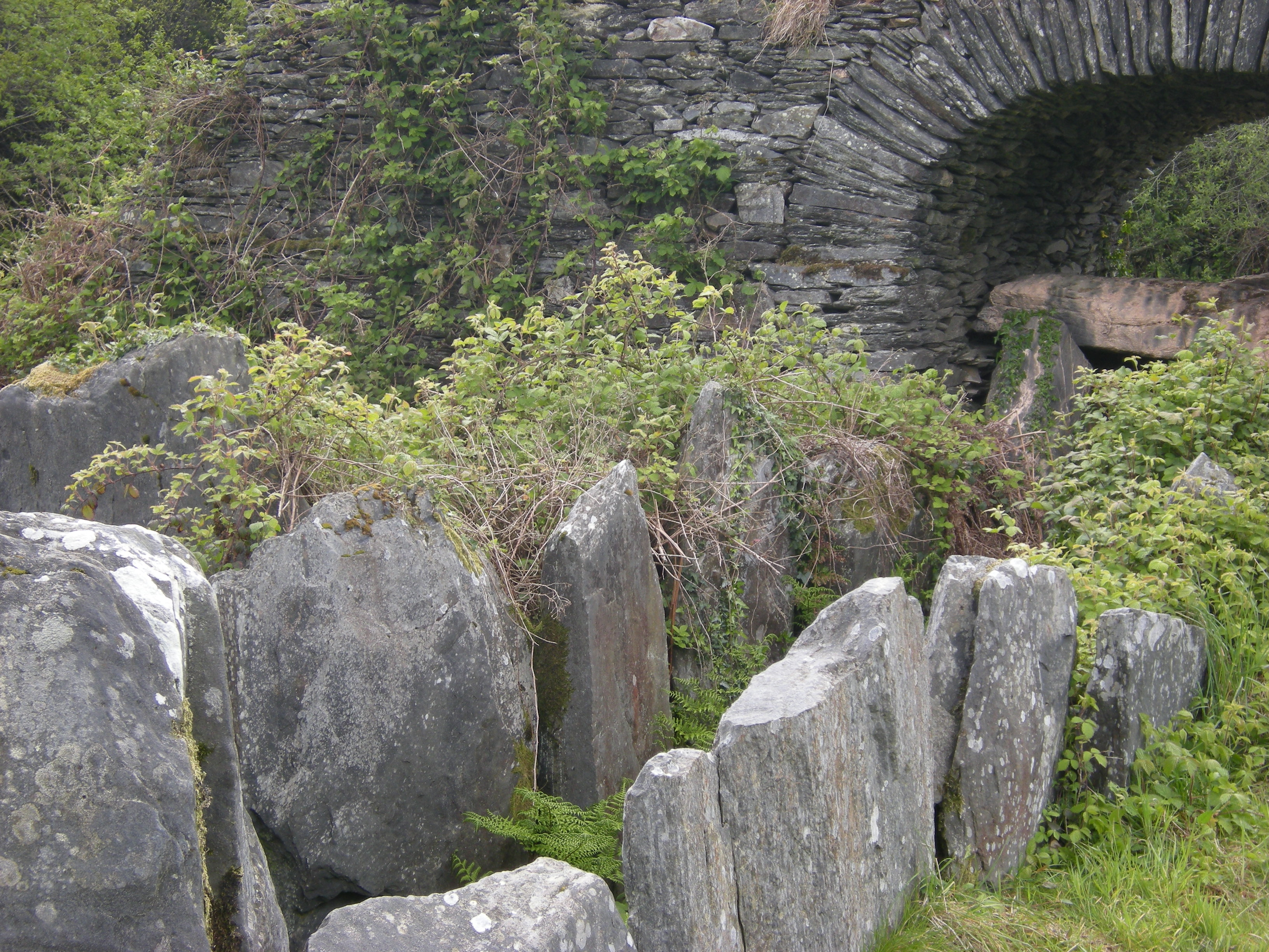 Gallery grave of Coët Correc, Mûr-de-Bretagne village, Côtes-d'Armor, France